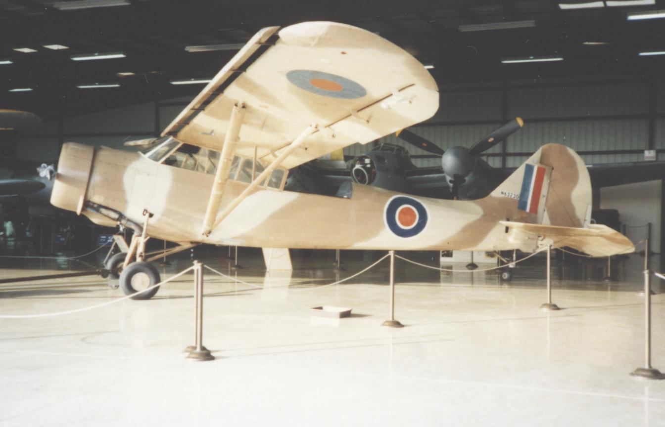 Stinson (Vultee) O-49 (L-1) Vigilant N63230 (40-3102) at the Weeks Air Museum at Tamiami airport Florida